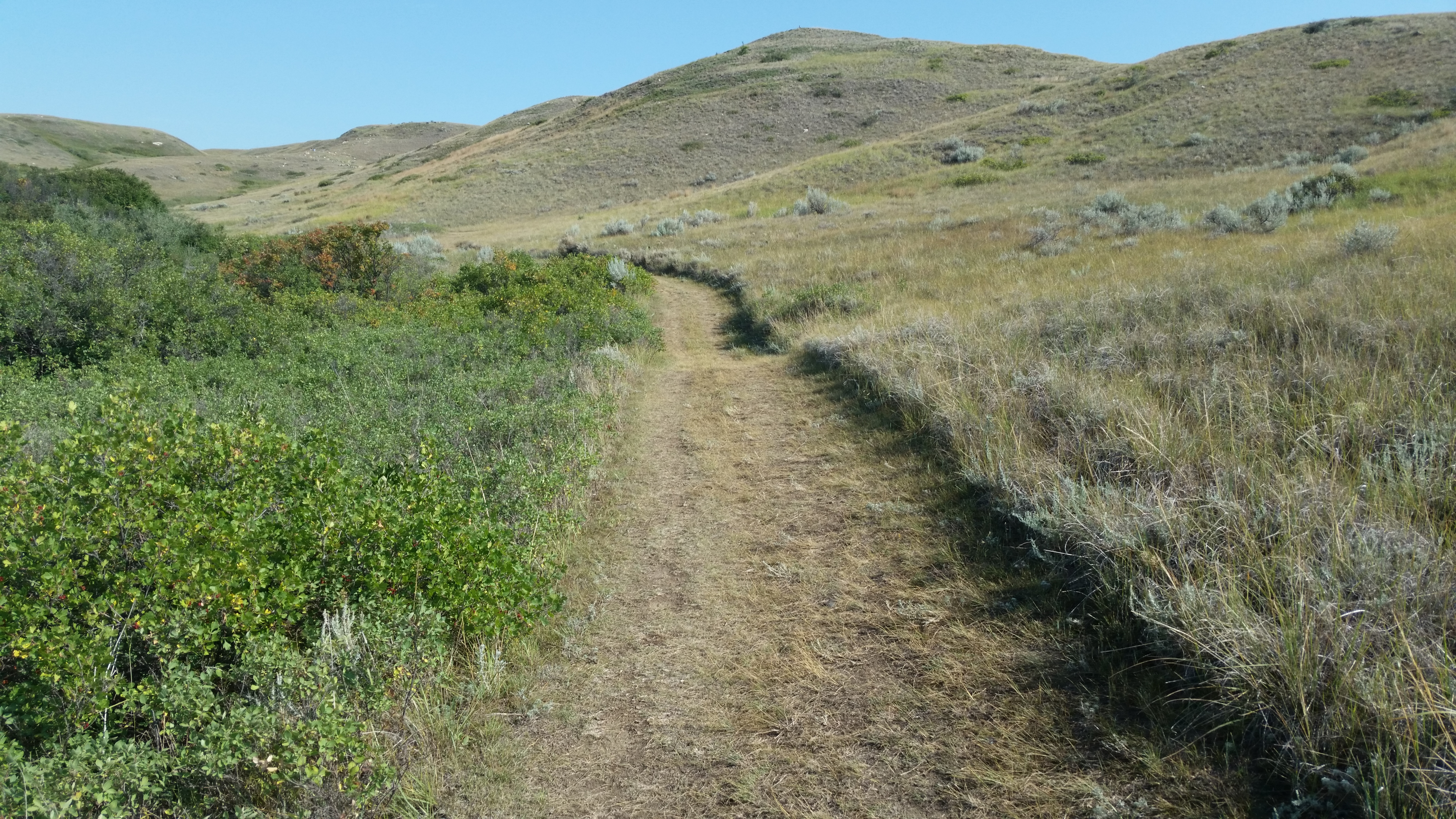 A view of the Ridges and Ravines trail in Saskatchewan Landing Provincial Park, August 2018